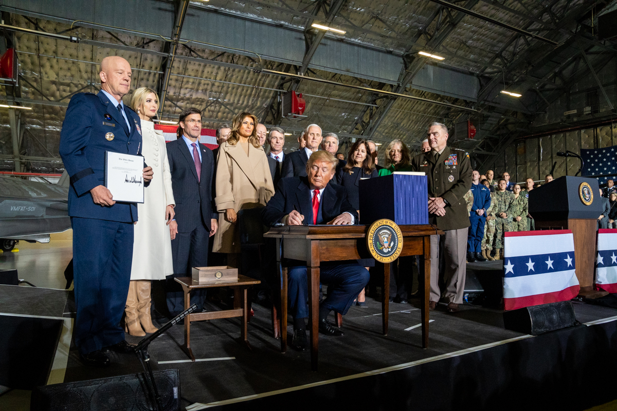 President Donald J. Trump signs S. 1790, The National Defense Authorization Act for Fiscal Year 2020 Friday, Dec. 20, 2019, at Hangar 6 at Joint Base Andrews, Md. (Official White House Photo by Shealah Craighead)